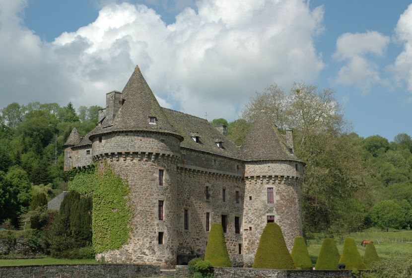 Auzers Castle (Cantal) Auzers, Auvergne, France